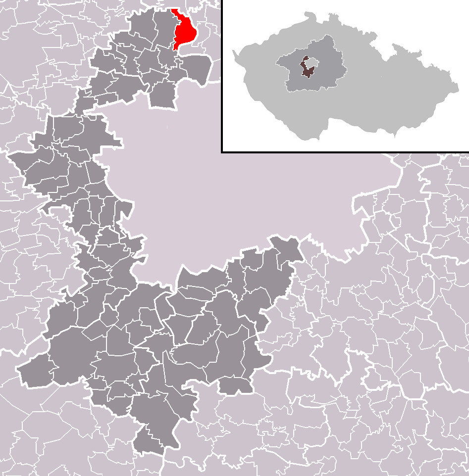 Location of Libčice nad Vltavou town within Prague-West District and administrative area of Černošice as a Municipality with Extended Competence.